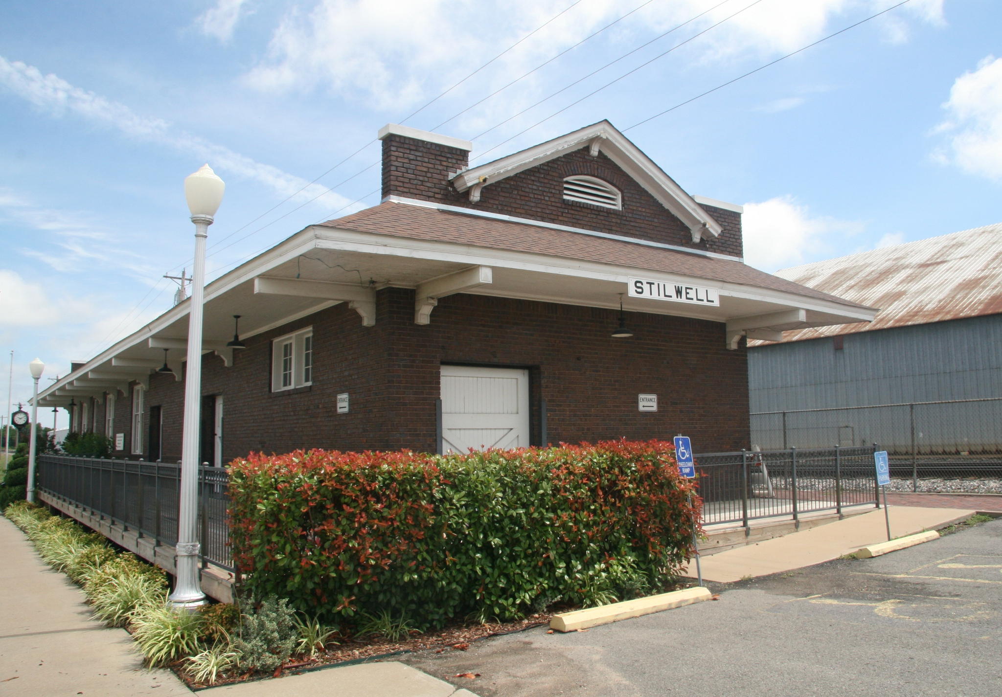 Train depot in Stilwell, Oklahoma